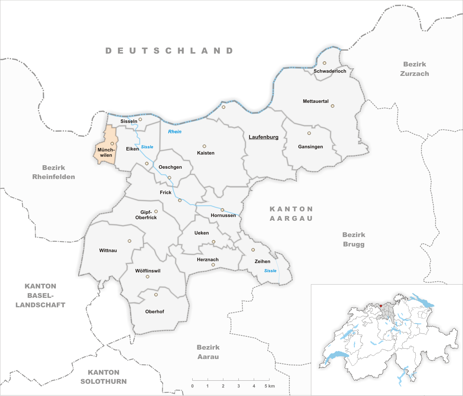 Municipality Münchwilen